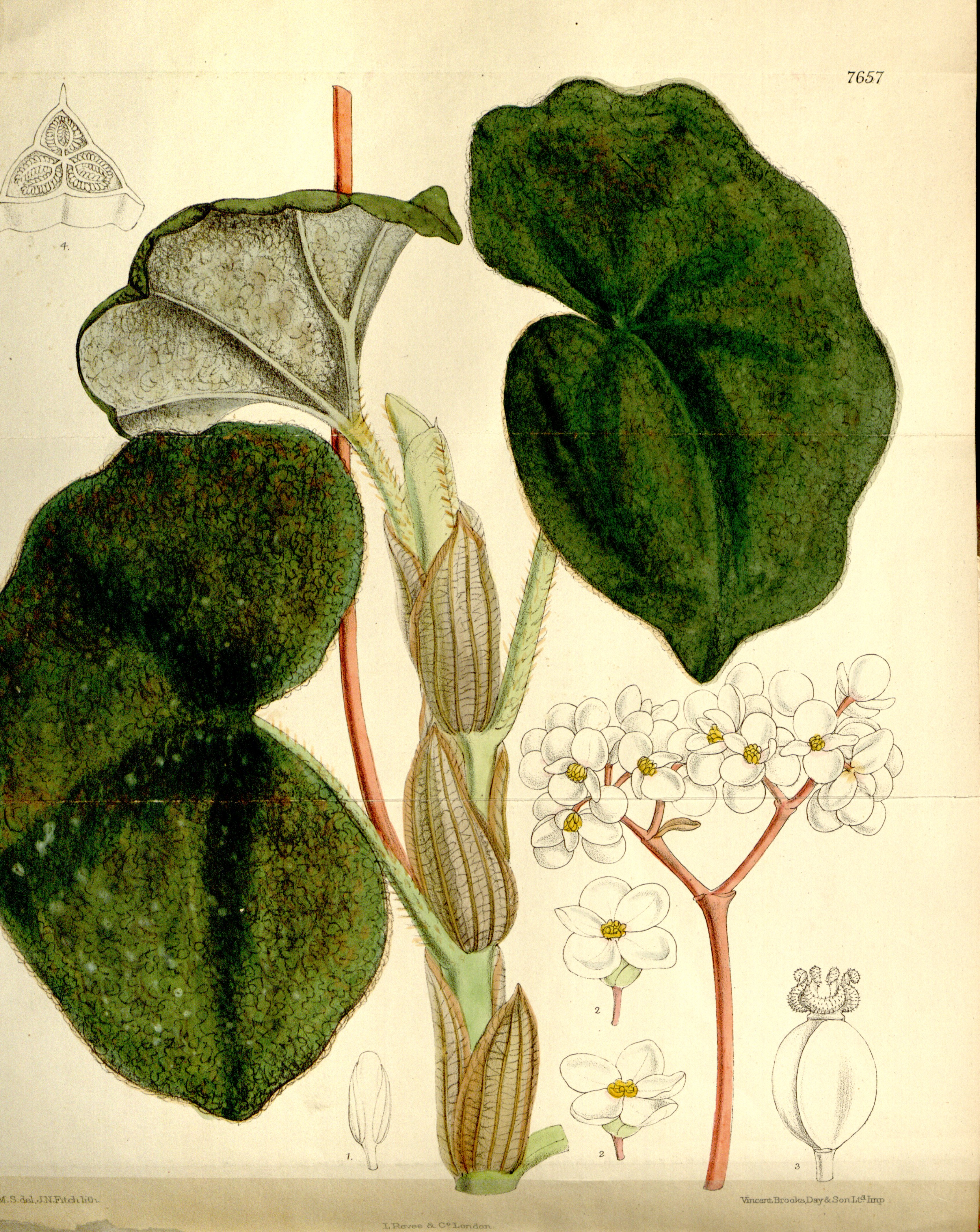 Begonia venosa